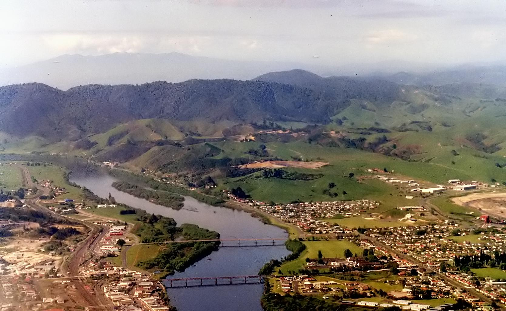 Aerial view of Huntly and the Waikato River in 1991. En route Dargaville to Paraparaumu.